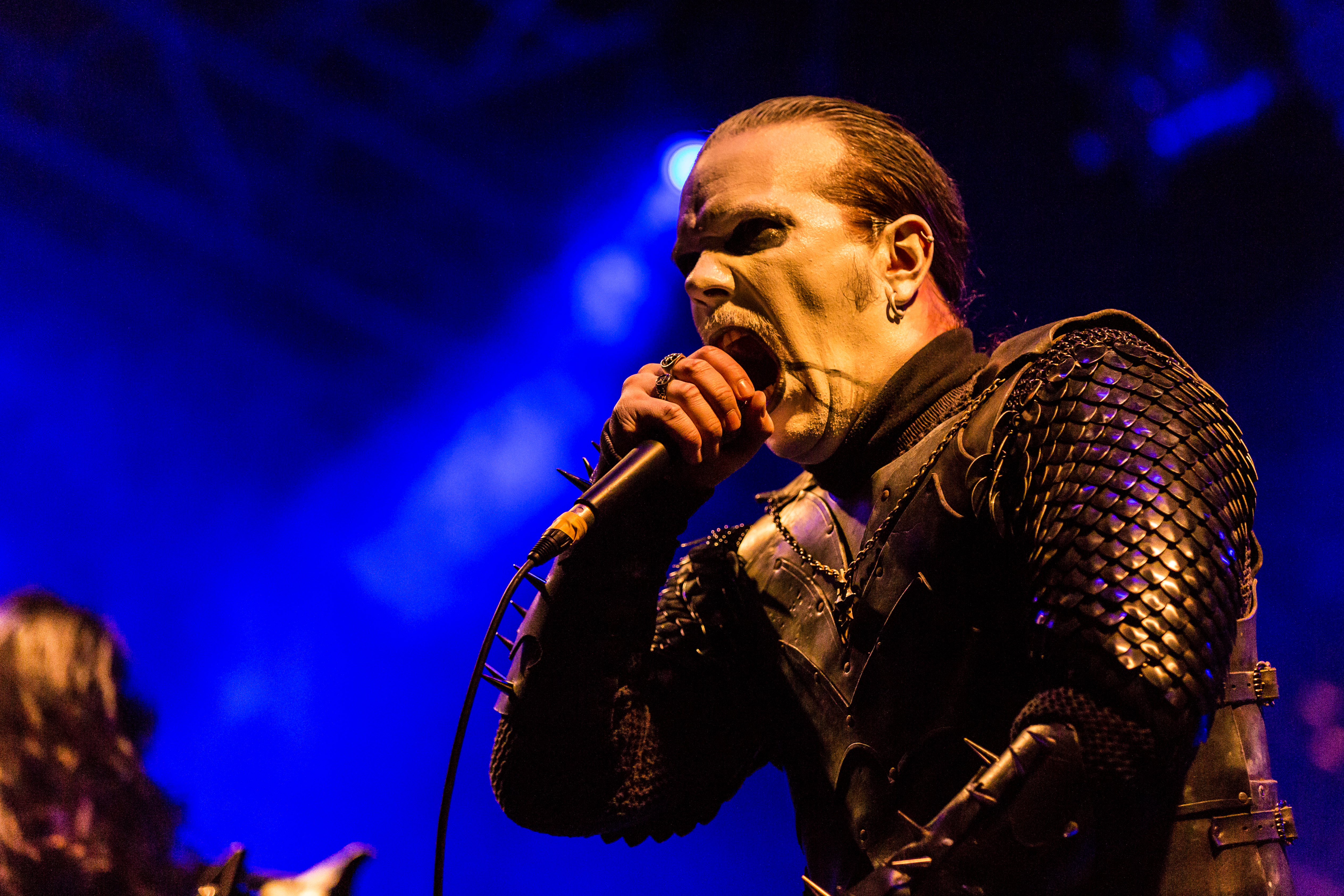 The Swedish black metal band Dark Funeral at the Rock unter den Eichen Open Air 2017 in Bertingen/Germany.